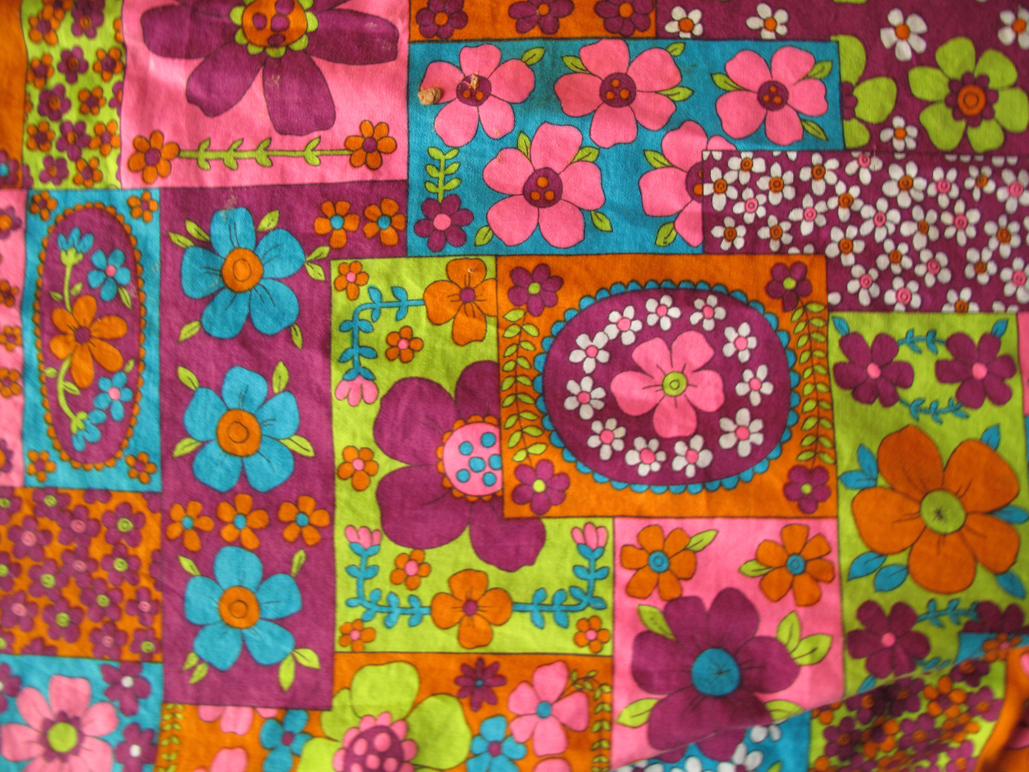 Late 1960s cotton print fabric, plain weave, United States